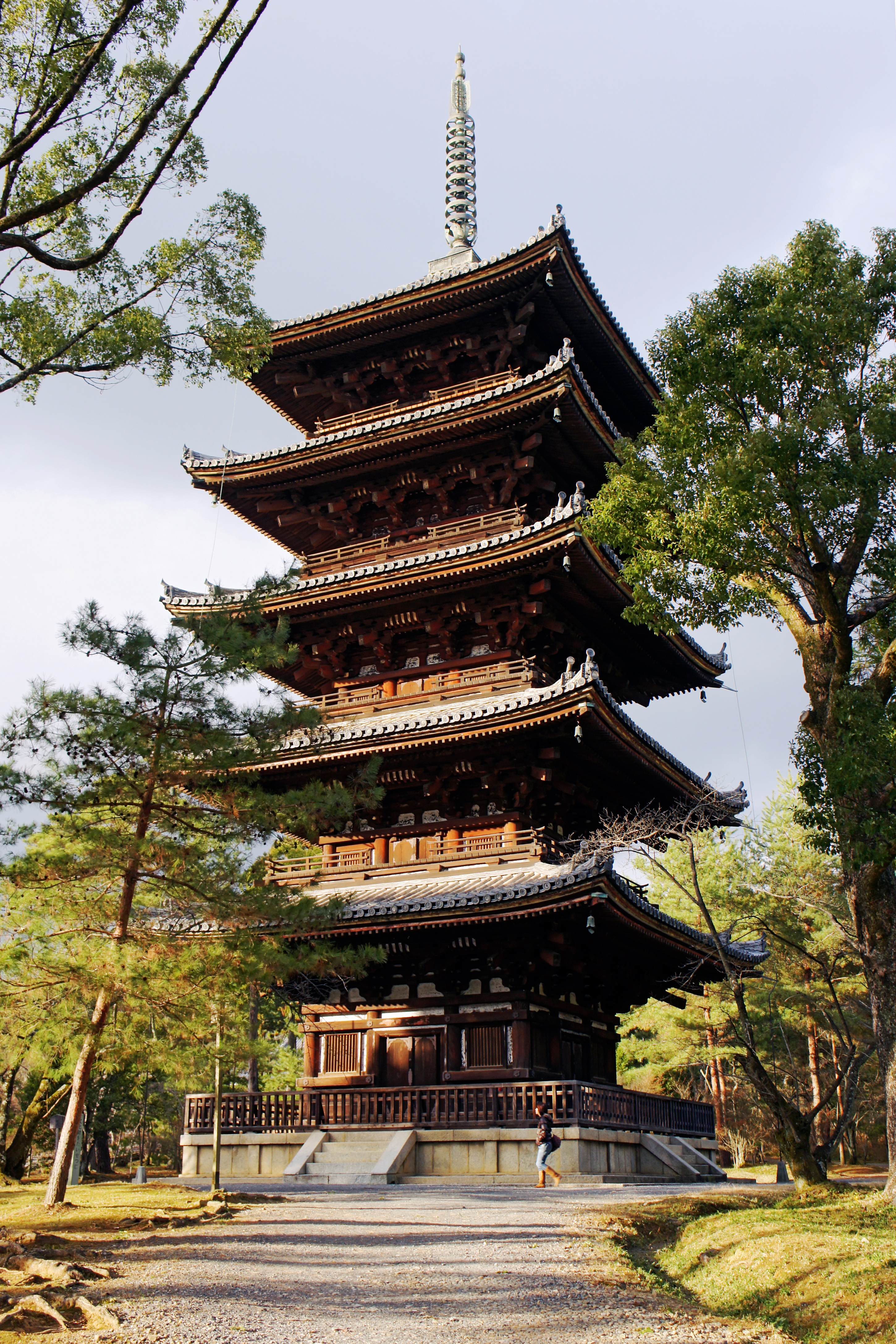 Ninna-ji's Pagoda in Ukyō-ku, Kyoto, Kyoto Prefecture, Japan. Ninna-ji was registered as part of the UNESCO World Heritage Site "Historic monuments of ancient Kyoto".